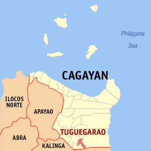 Map of Cagayan showing the location of Tuguegarao